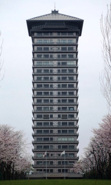 Former Empire Hotel building. Yokohama, Japan